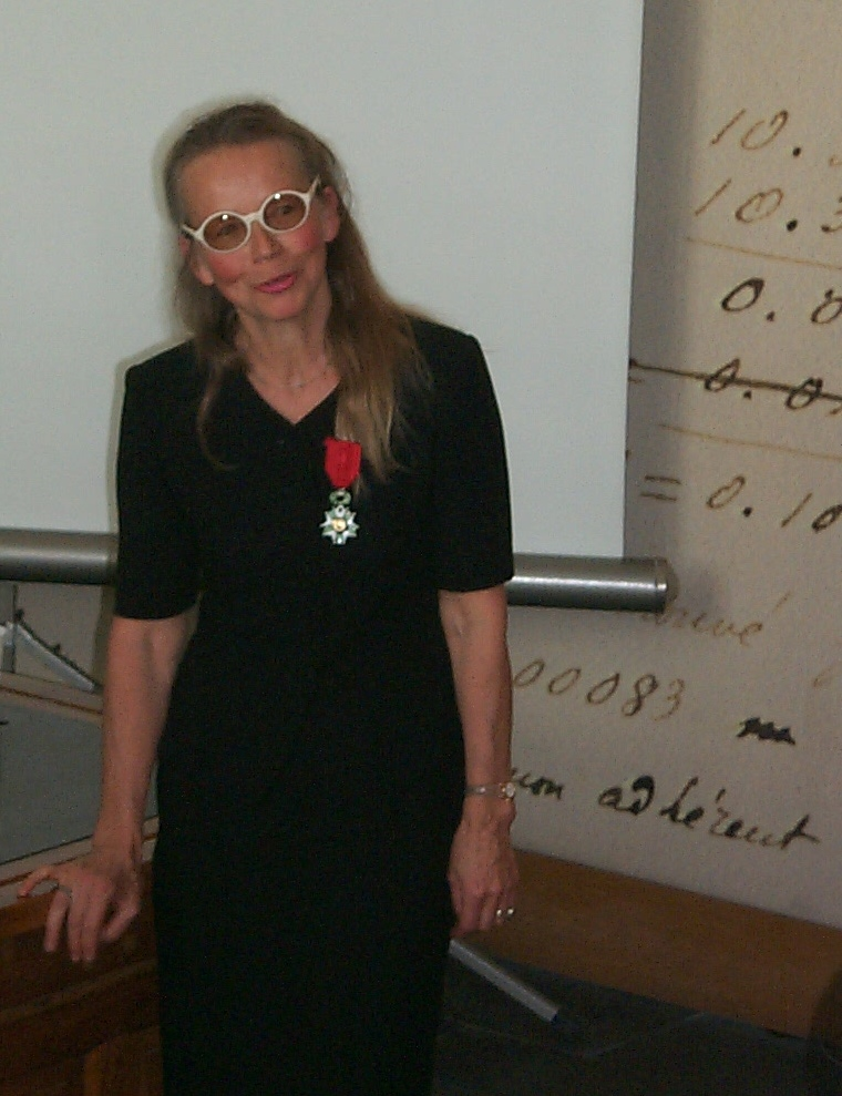 Pr Françoise Brochard-Wyart was acknowledged knight of the Légion d'Honneur for her highly valuables contributions to research and teaching of physicochemistry at the University Pierre et Marie Curie of Paris. The ceremony took place on March 29th 1998 in the amphitheater of the Curie Institute (formerly Institute of Radium, founded by Marie Sklodowska-Curie).